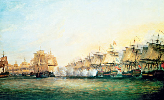 1782 Battle of Trincomalee in the American Revolutionary War.